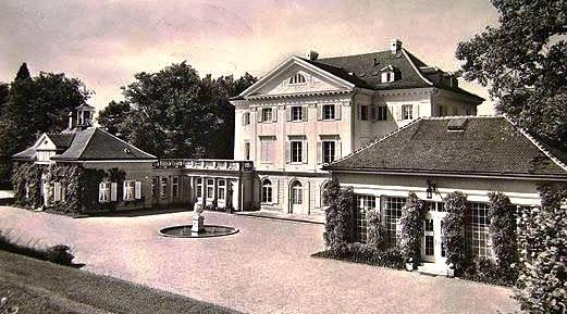 Gemälde der Eugensburg